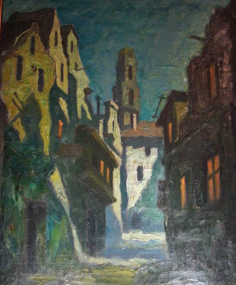 Emeric Tauss Torday